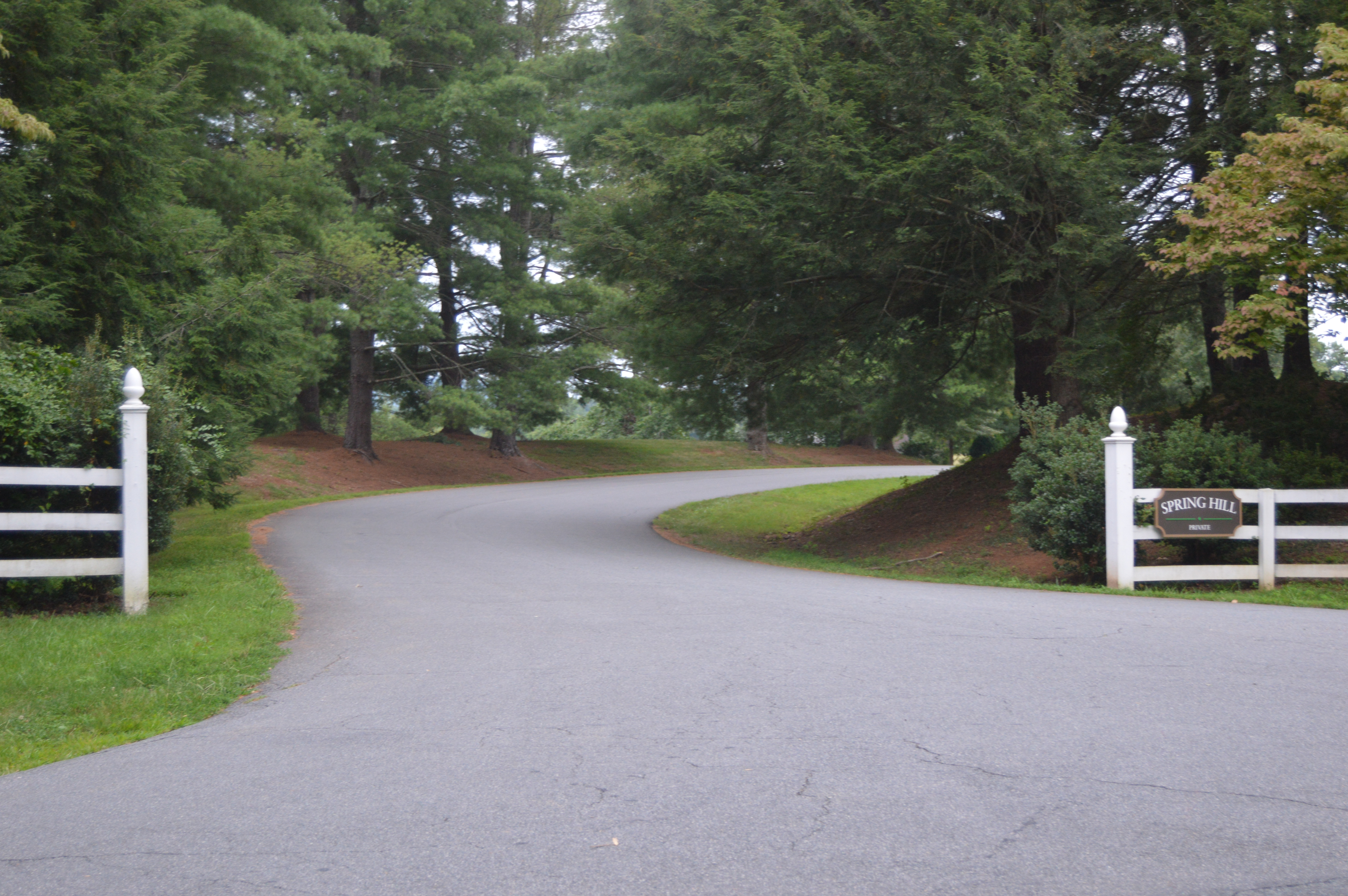 Driveway to the Spring Hill property, located off Ivy Depot Road west of Charlottesville in Albemarle County, Virginia, United States. The property is listed on the National Register of Historic Places.